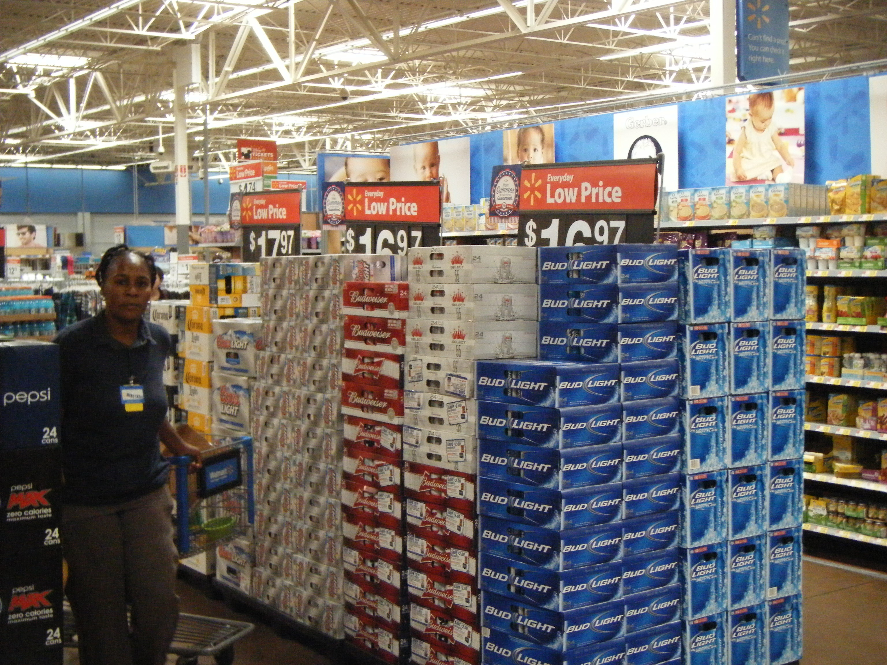 A display of cases of beer at a Walmart in Kissimmee, Florida